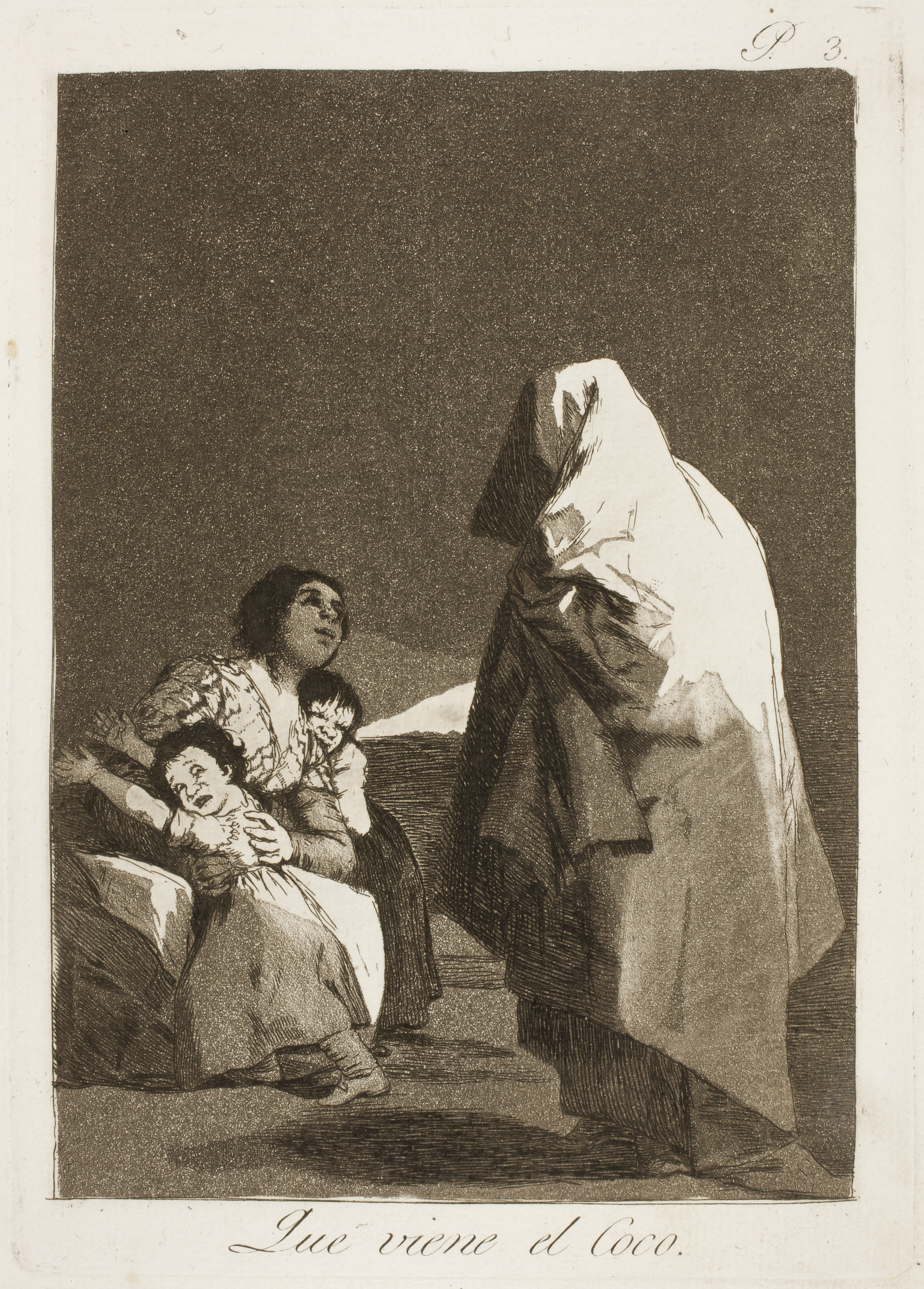 This print is work No. 3 of the "Caprichos" series (1st edition, Madrid, 1799).